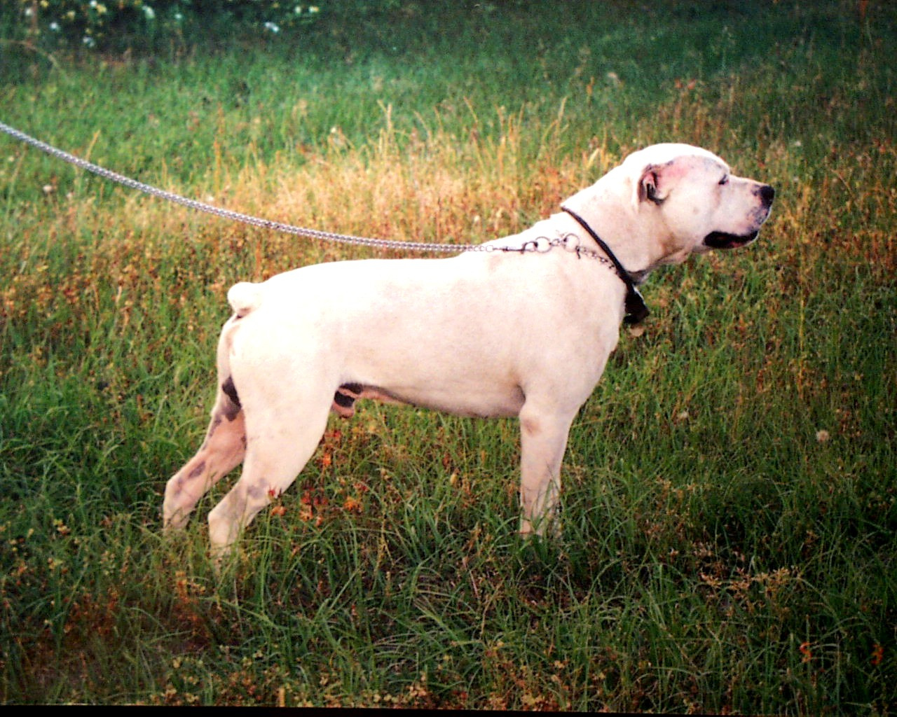 Adult White English Bulldog